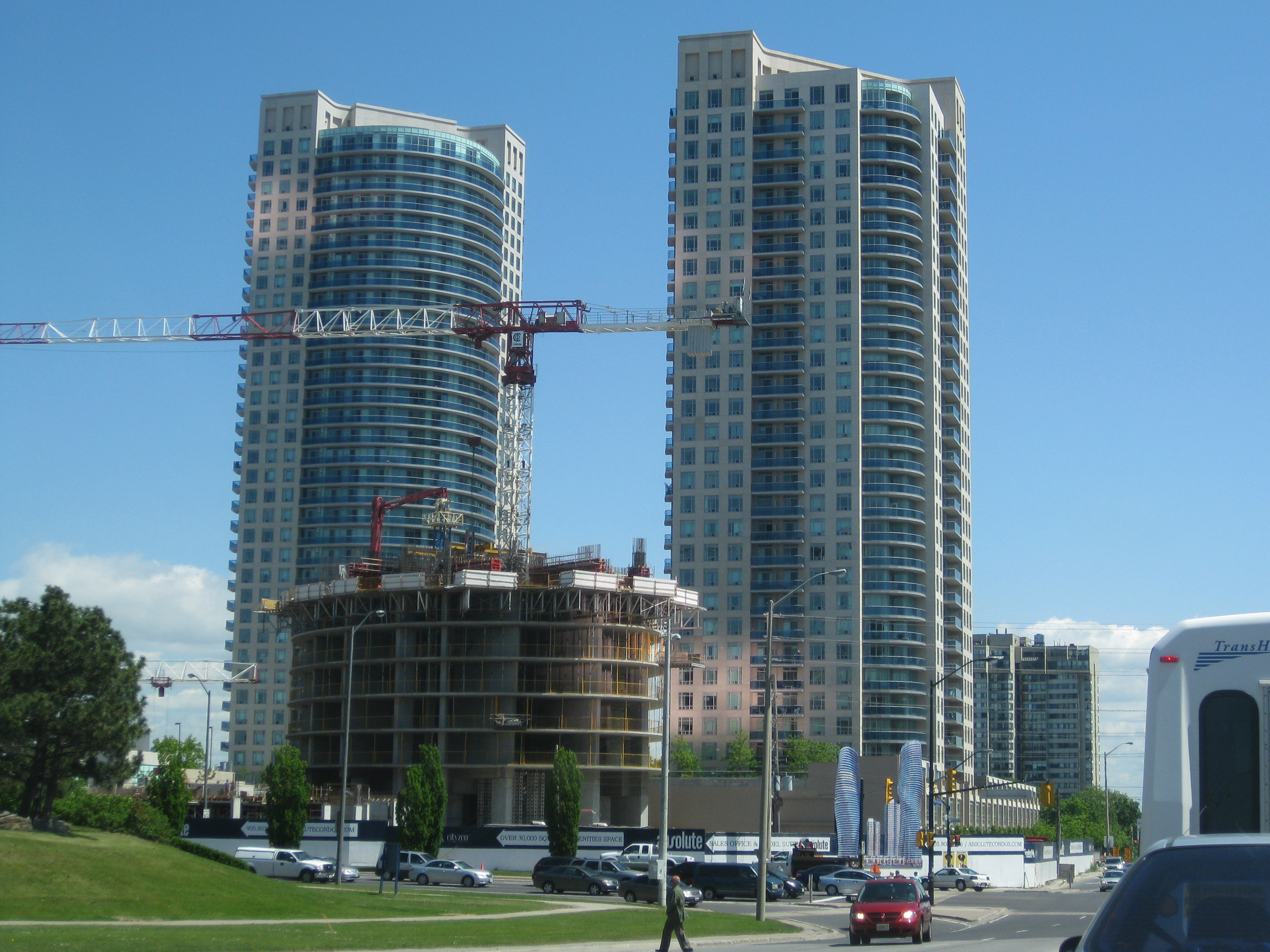 Construction of the Absolute Condos project in Mississauga, Canada